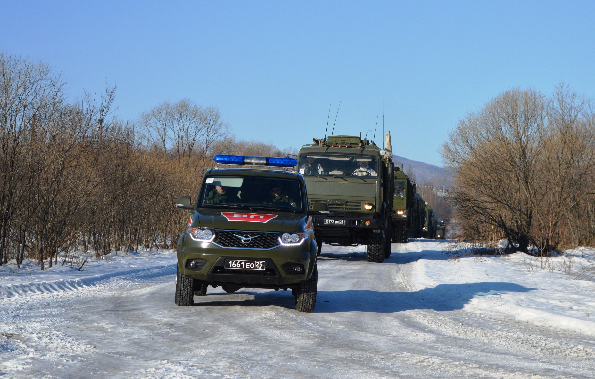 9K720 Iskander missile system of the 103rd Missile Brigade.